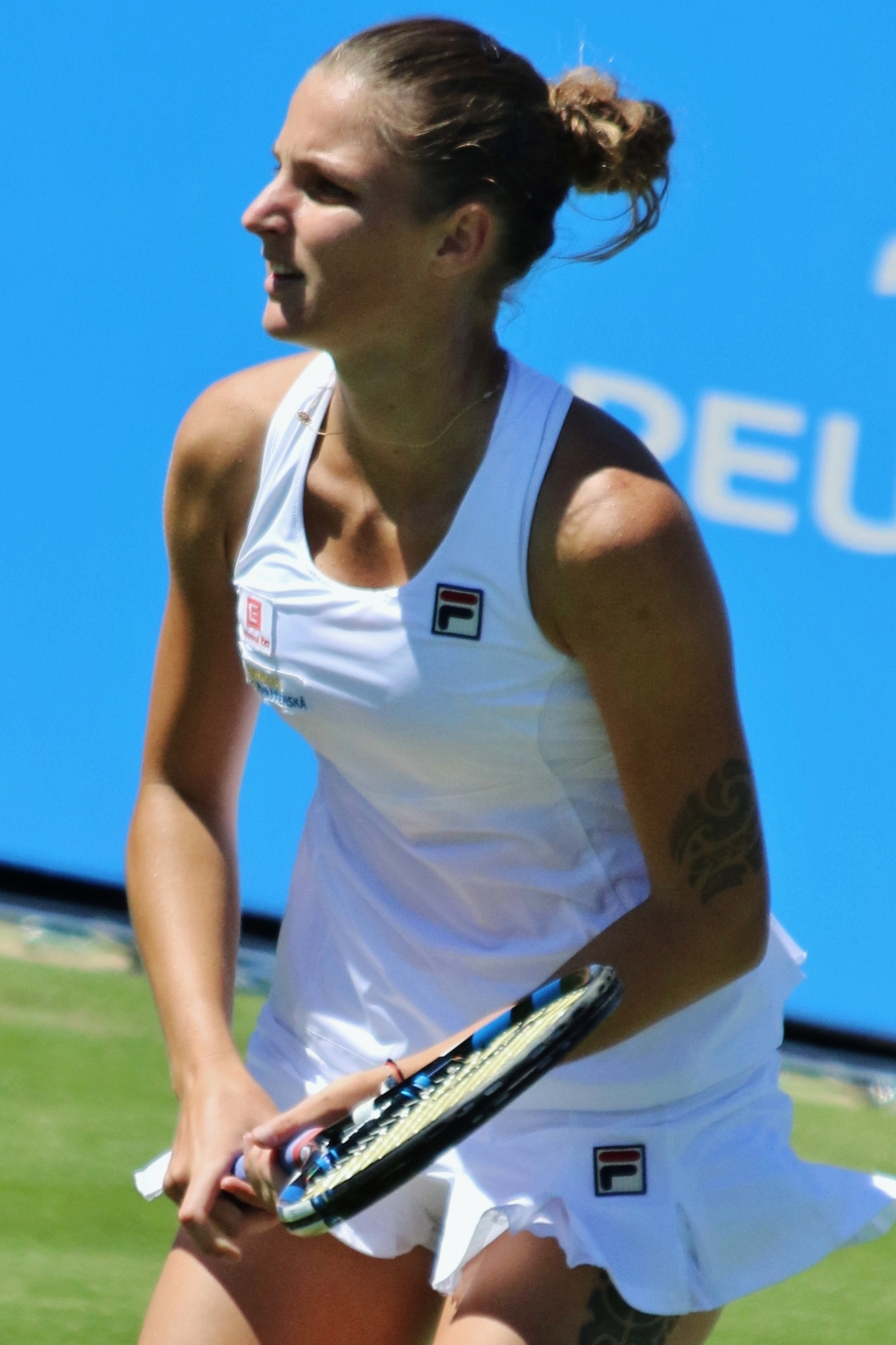 Pliskova at the 2017 Aegon International Eastbourne.